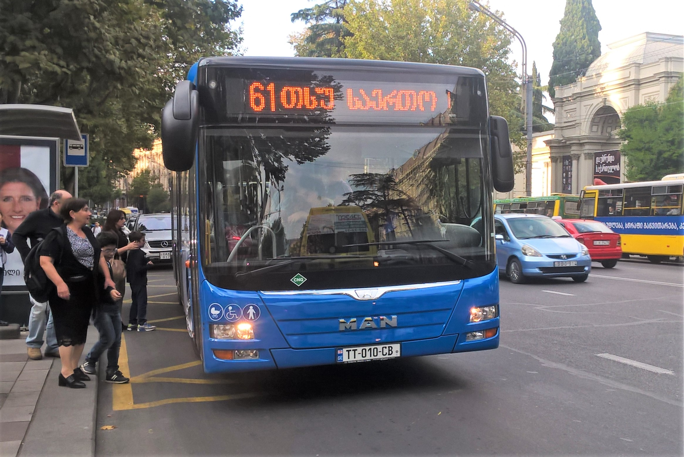 Tbilisi's new city bus - MAN Lion's city A21 CNG